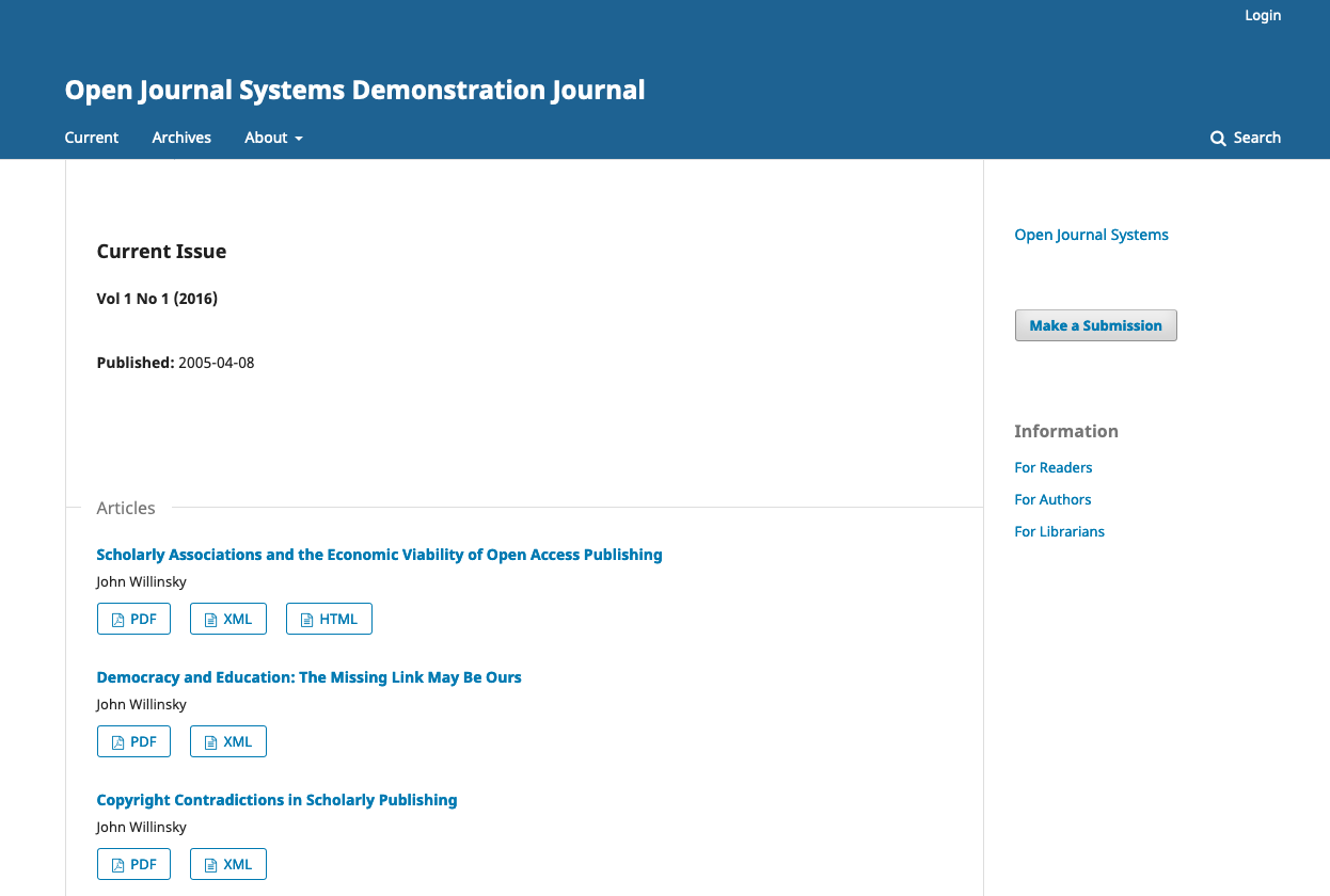 A screenshot of Open Journal Systems, version 3